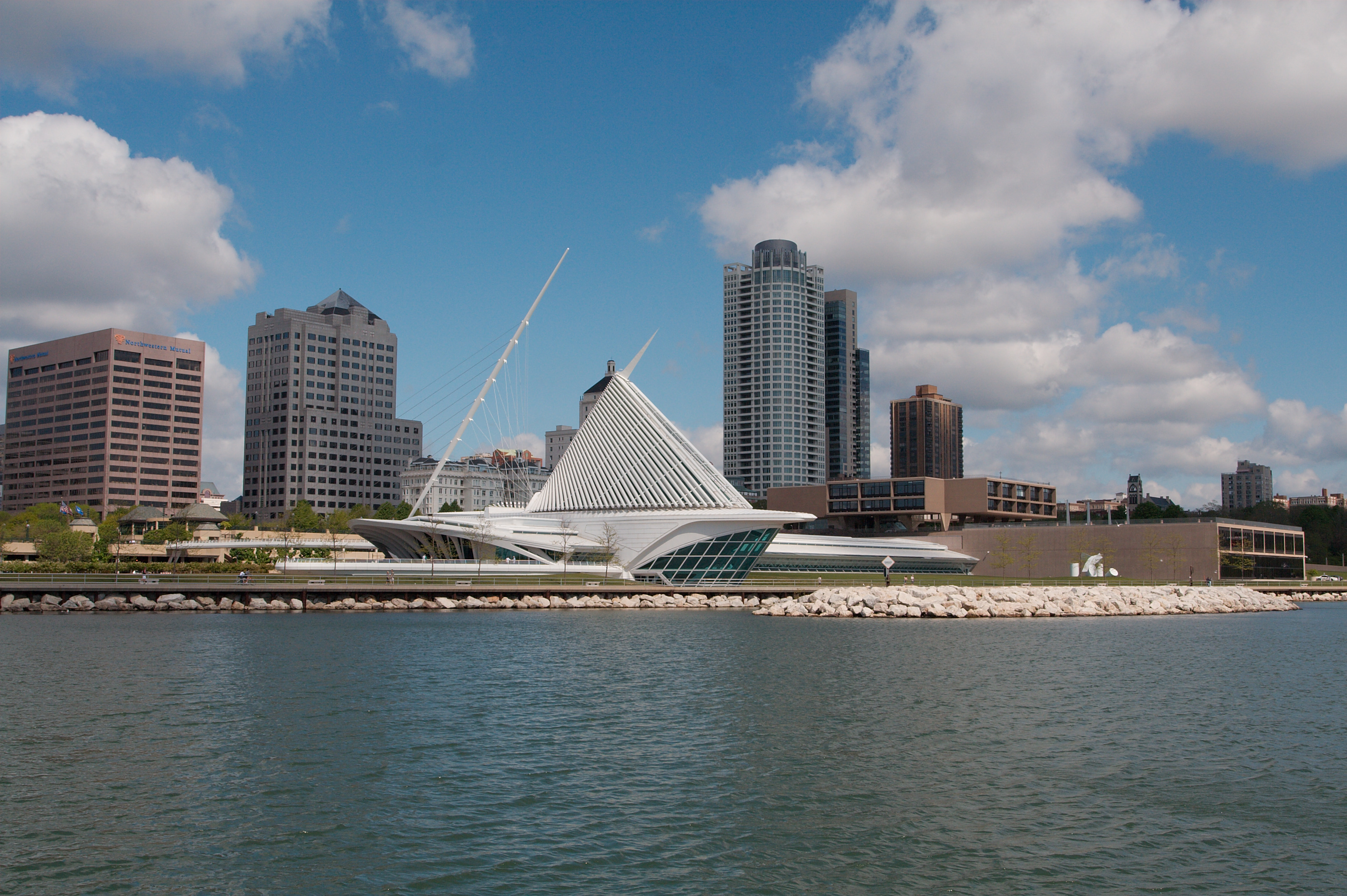 The Milwaukee Art Museum in Milwaukee, Wisconsin